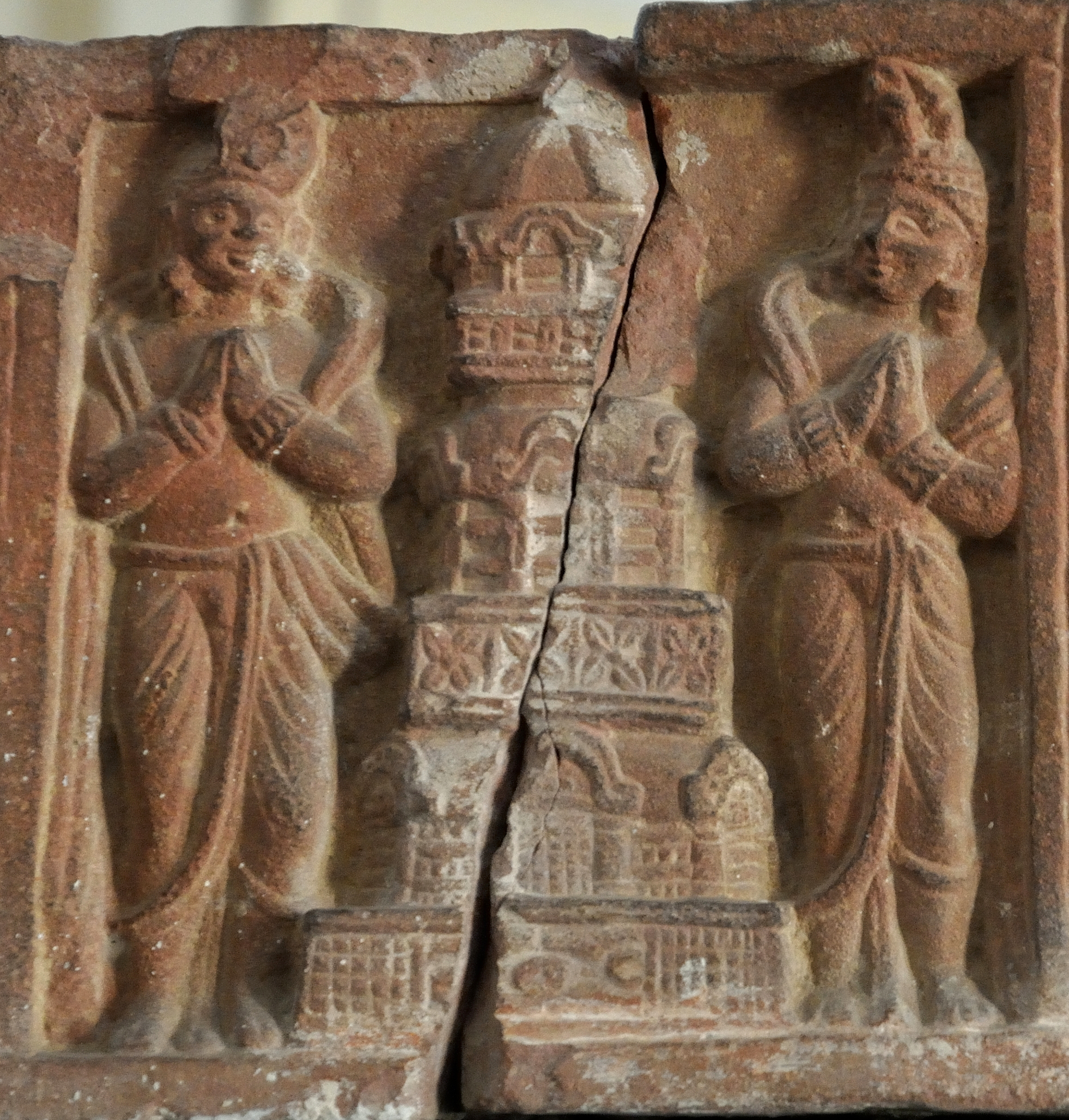 Tall circular Buddhist temple, Early 1st Century CE - Mathura - ACCN 00-M3 - Government Museum - Mathura